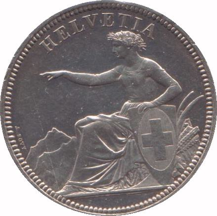 1855 Shooting Thaler Obverse. The corresponding image of the reverse side has been deleted because apparently the OTRS was interpreted as concerning only the obverse image, but it is preserved here.